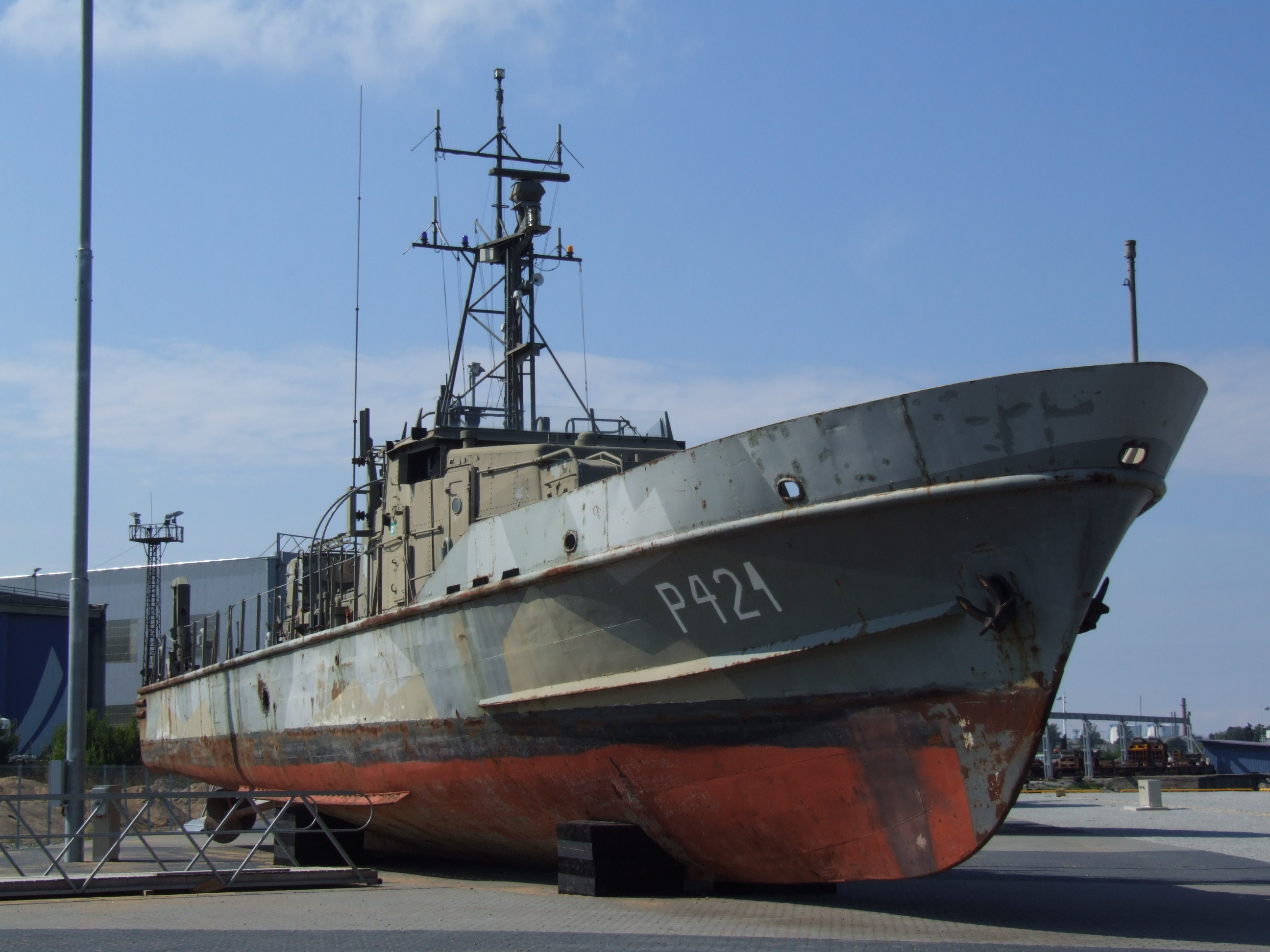 EML Suurop (P421), estonian ship